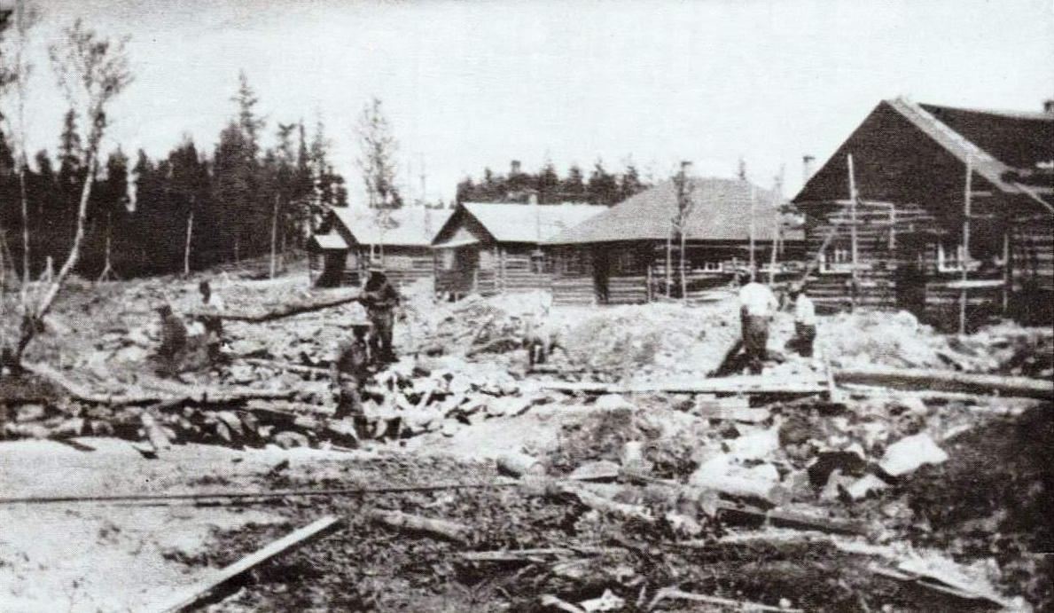 Bourlamaque, 1935, construction of dwelling, waterworks and drainage systems